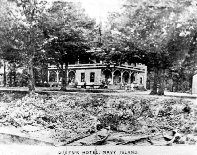 Queen's Hotel, Navy Island, Ontario, Canada. Destroyed by fire in 1910.